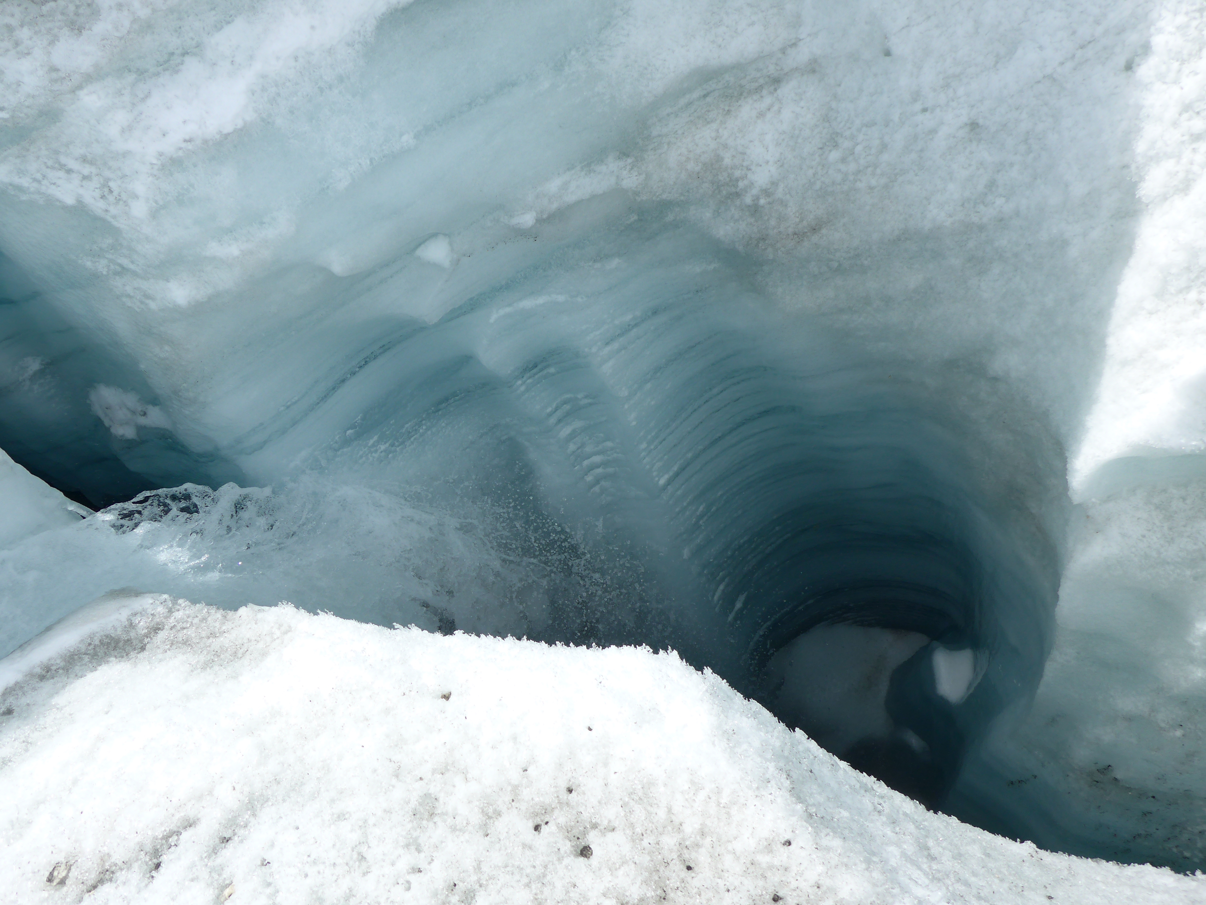 Moulin at Brunegggletscher (Swiss)